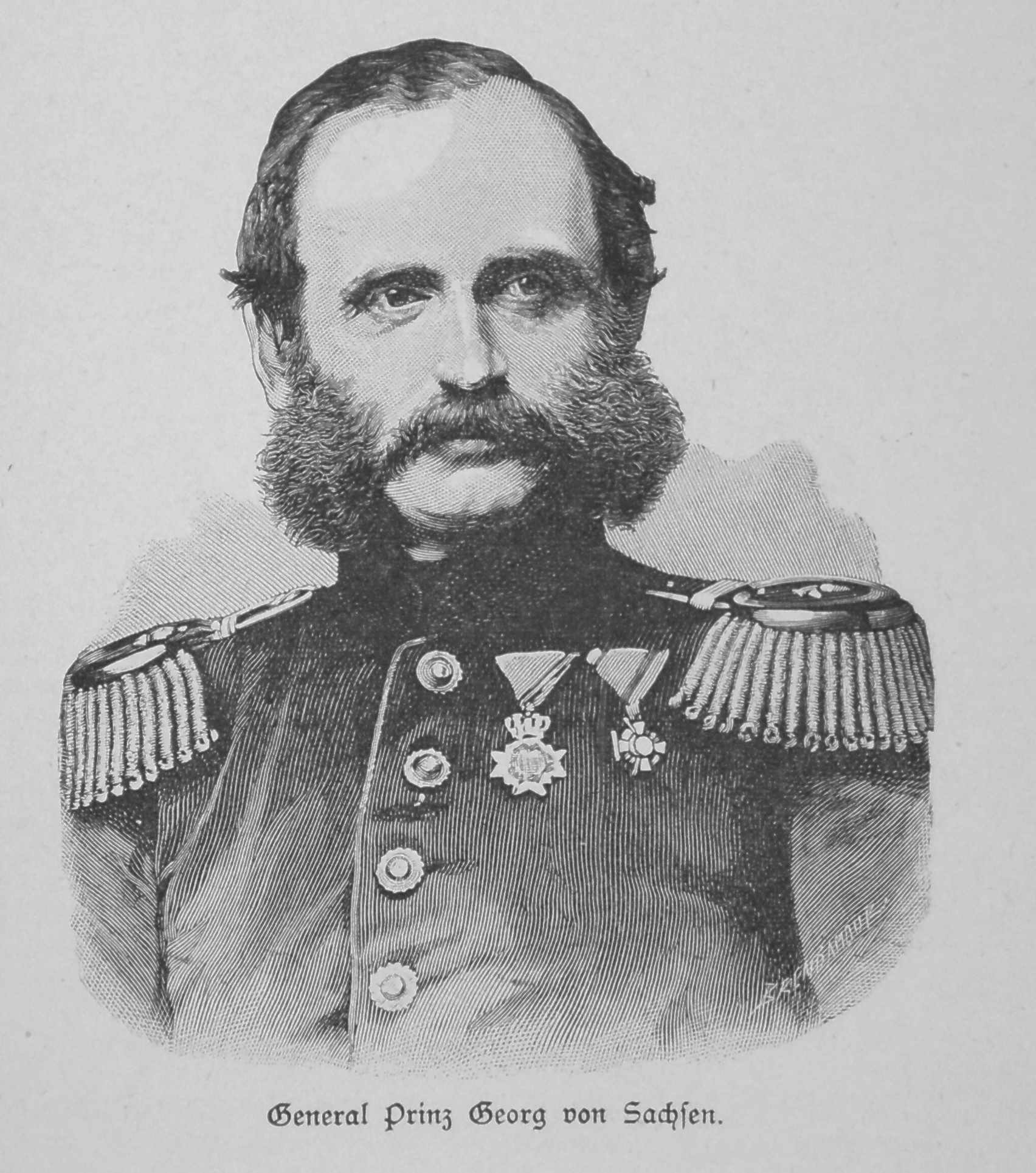 crown prince Georg von Sachsen